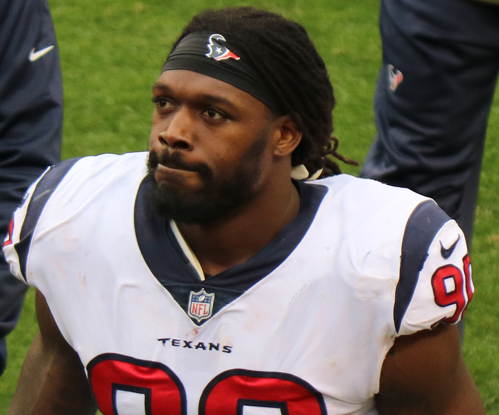 Jadeveon Clowney, a National Football League player.